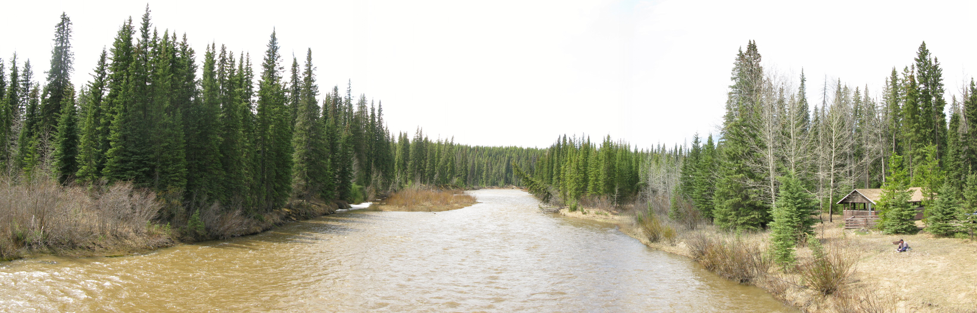 Wheateater